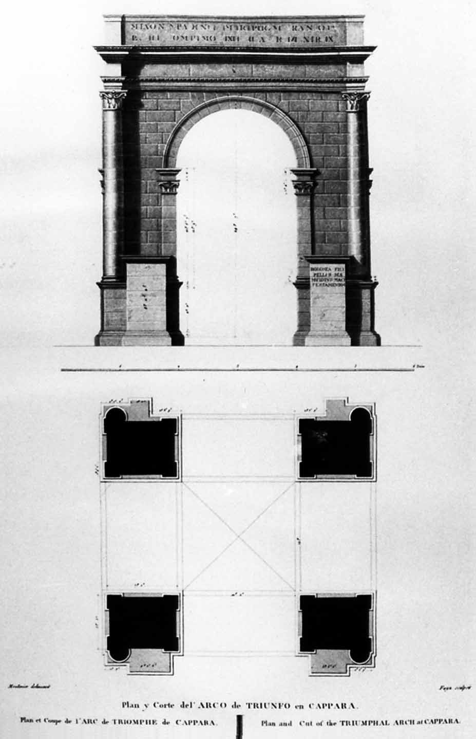 Tetrapylon in Cáparra. Plan and façade.